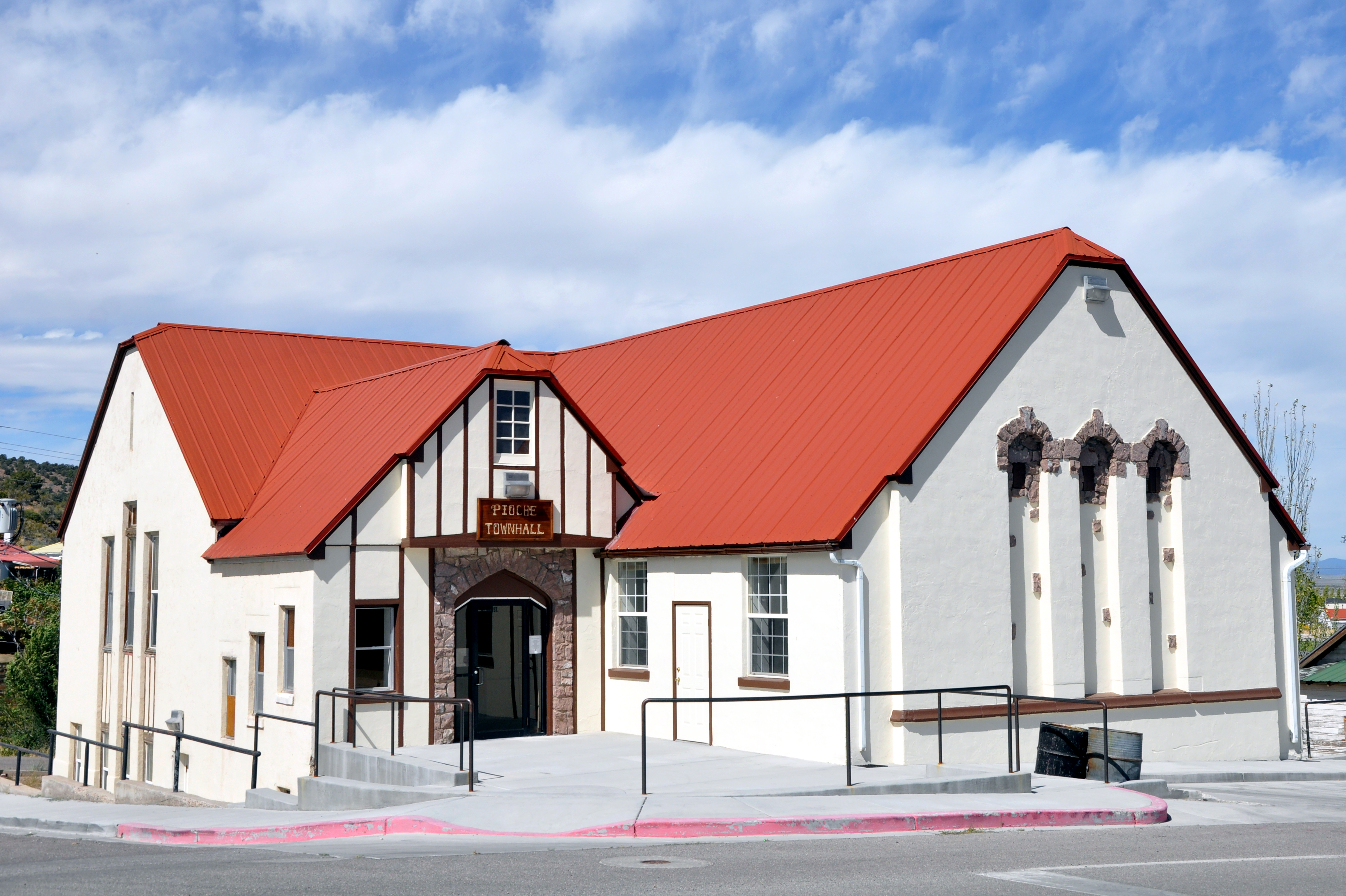 Town hall in Pioche, Nevada in the United States